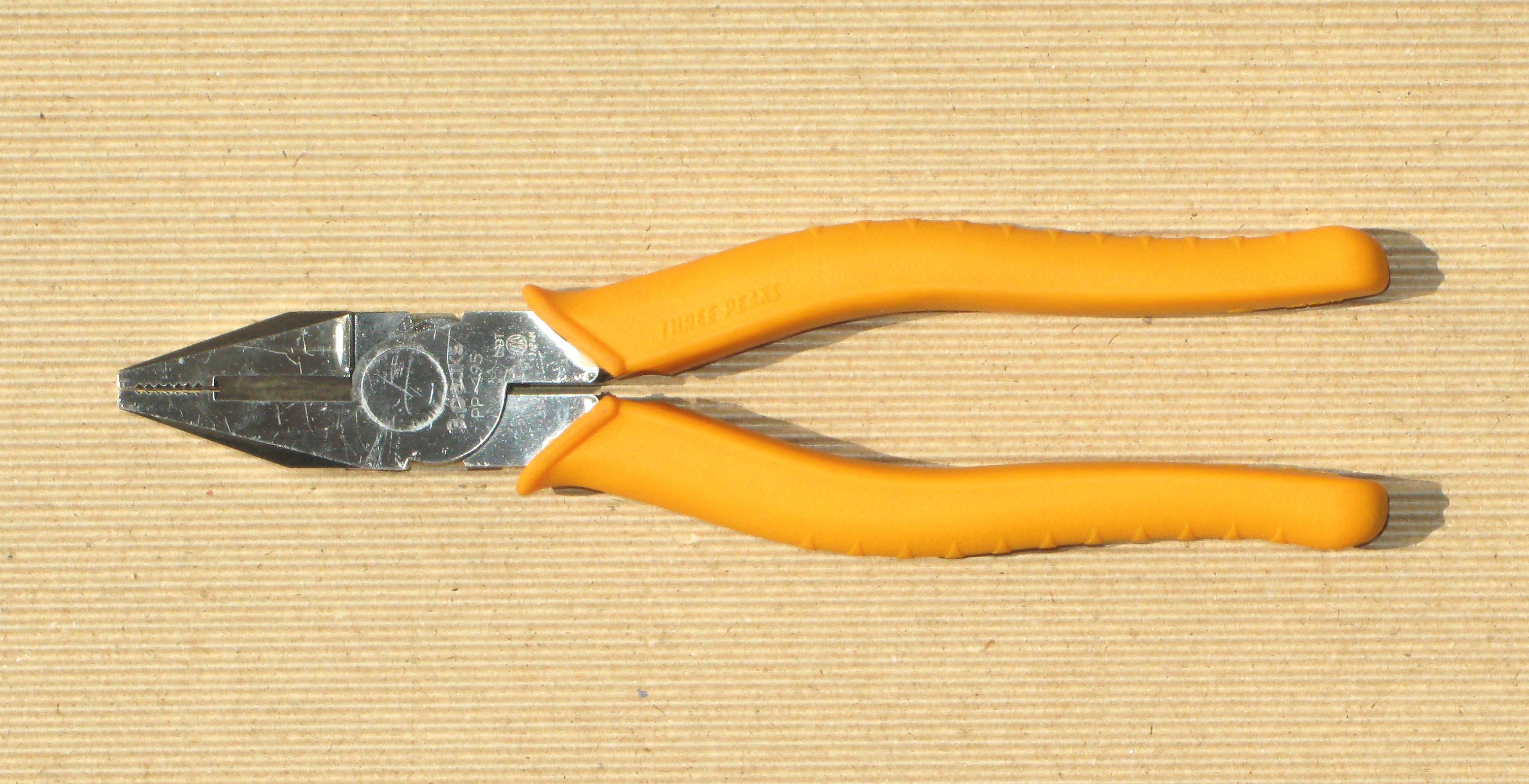 3.peaks brand made in japan.